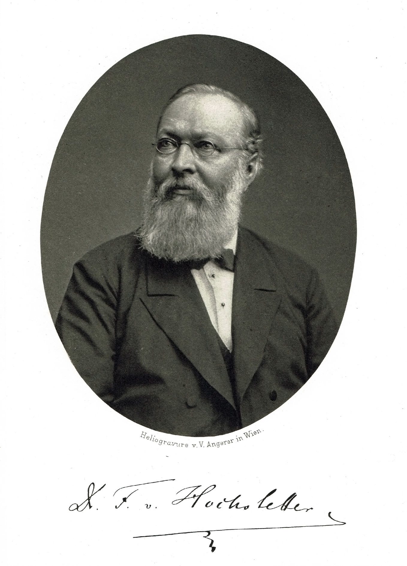 Portrait: Ferdinand von Hochstetter, Heliogravure (Photogravure) from Viktor Angerer (1839–1894)